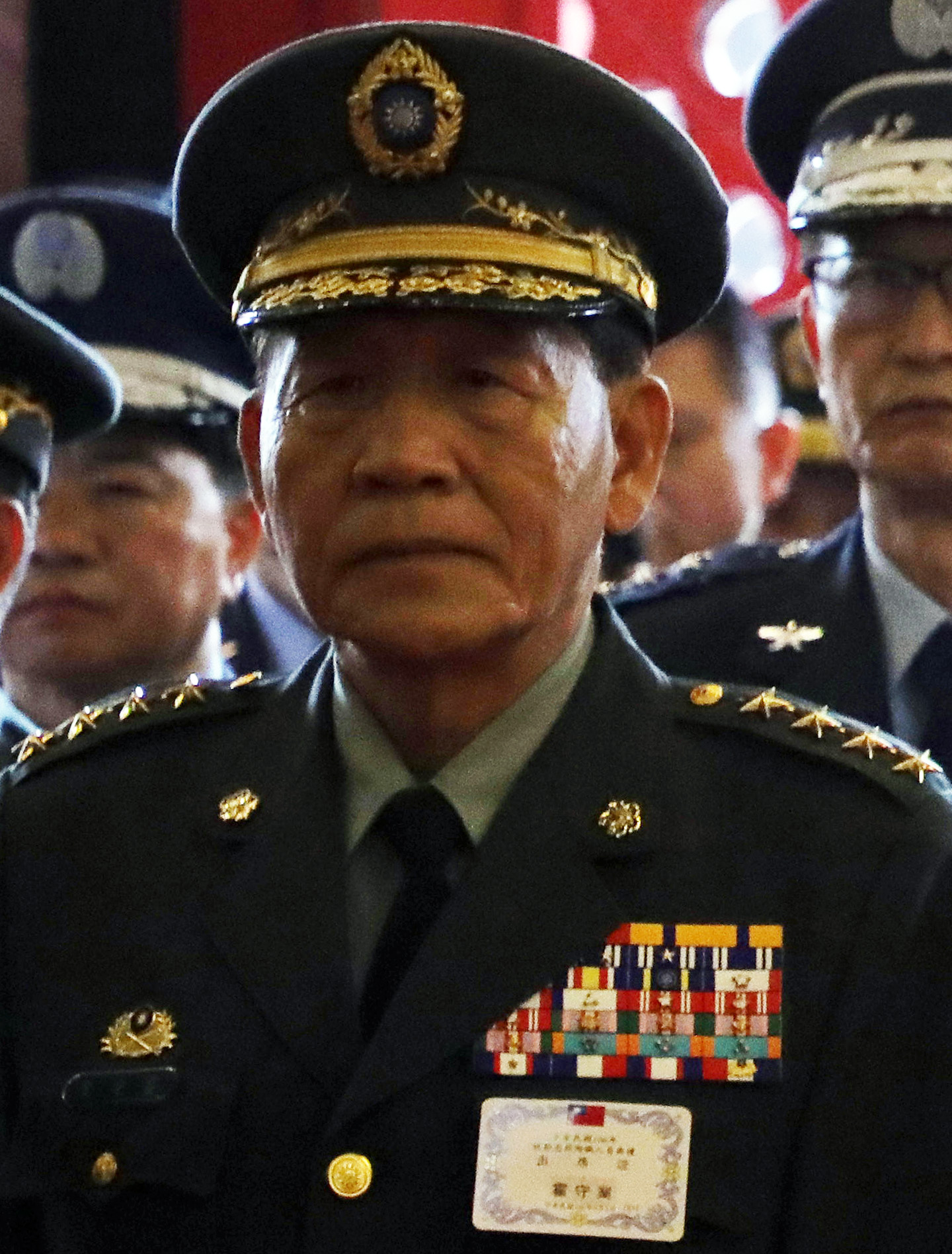 Senior General Huo Shou-yeh, Military Strategy Advisor, Office of the President.